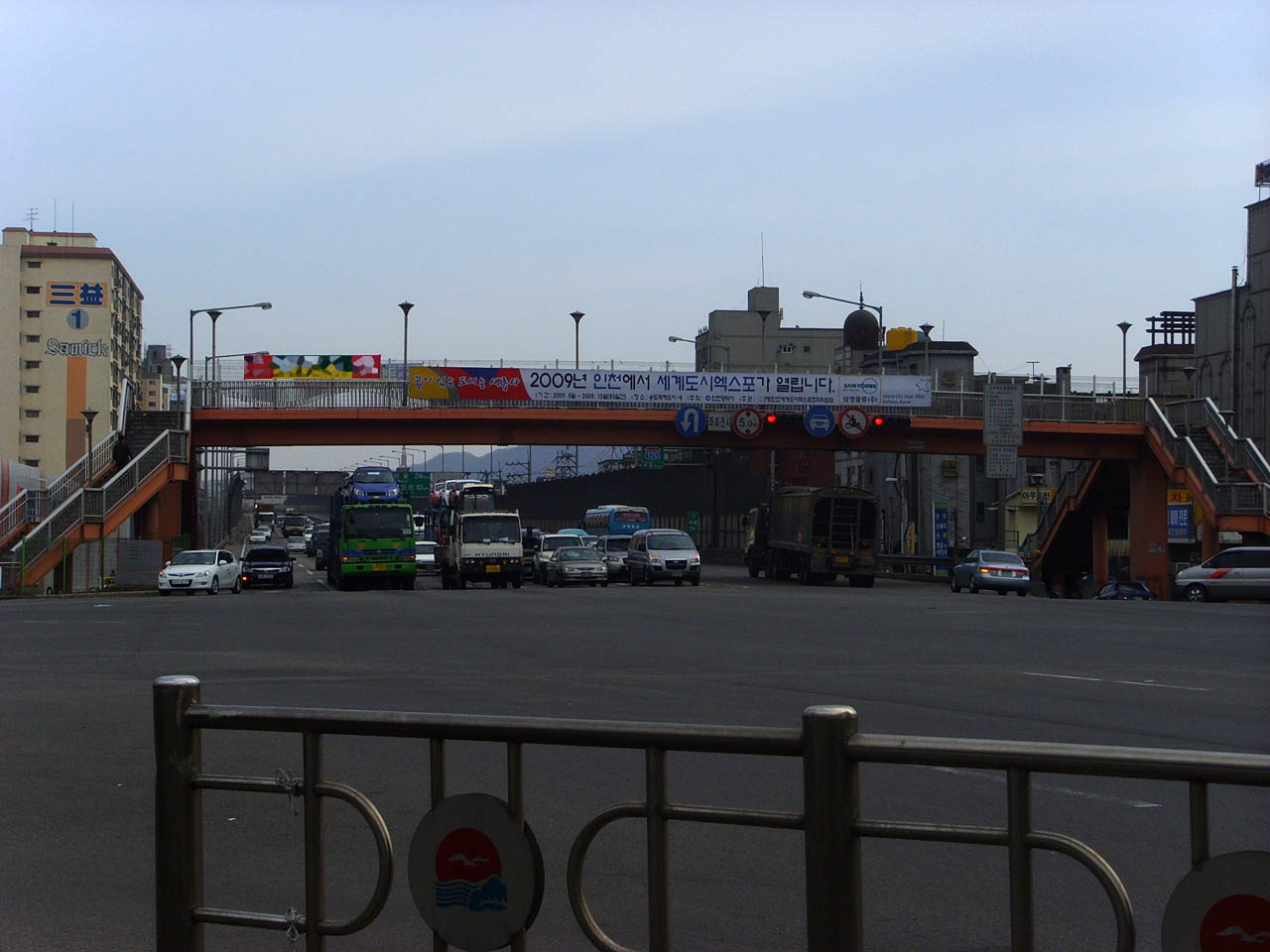 Gyeongin Expressway (#120) Beginning point